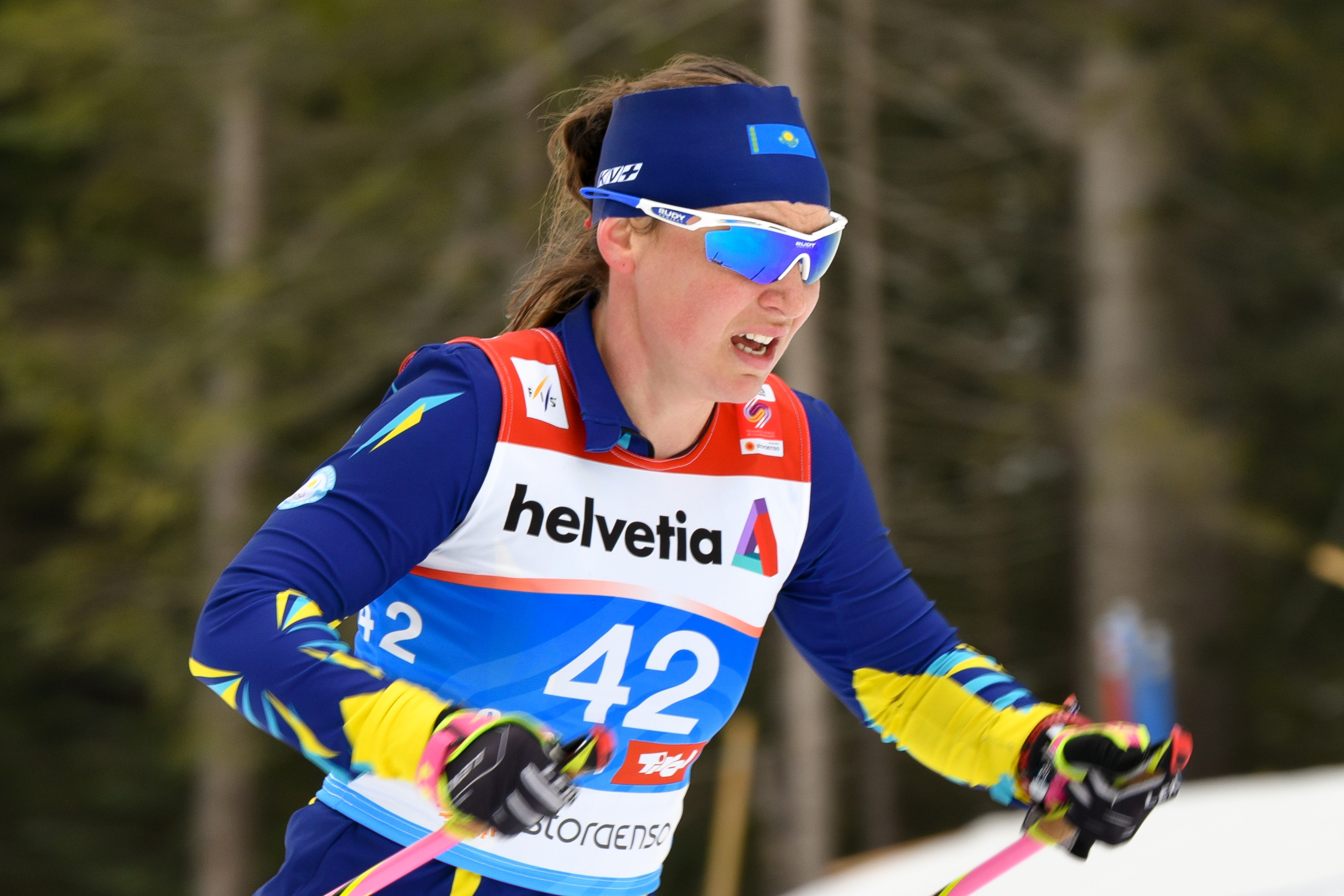 FIS Nordic Wolrd Ski Championships Seefeld 2019 - Ladies 30km Mass Start Free. Picture shows Irina Bykova (KAZ).